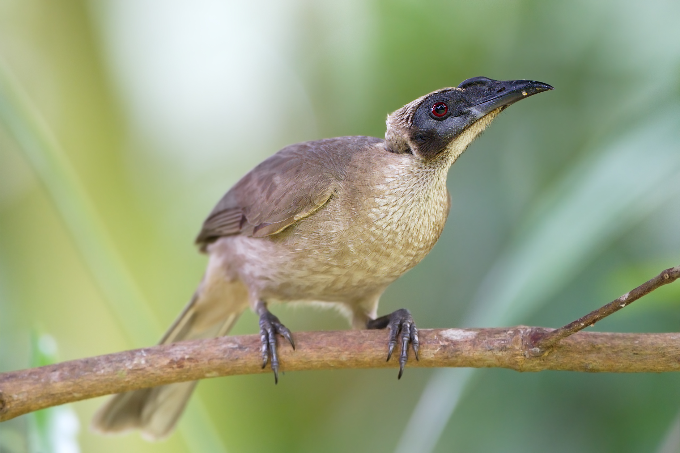 Helmeted Friarbird (Philemon buceroides), Daintree Village, Queensland, Australia